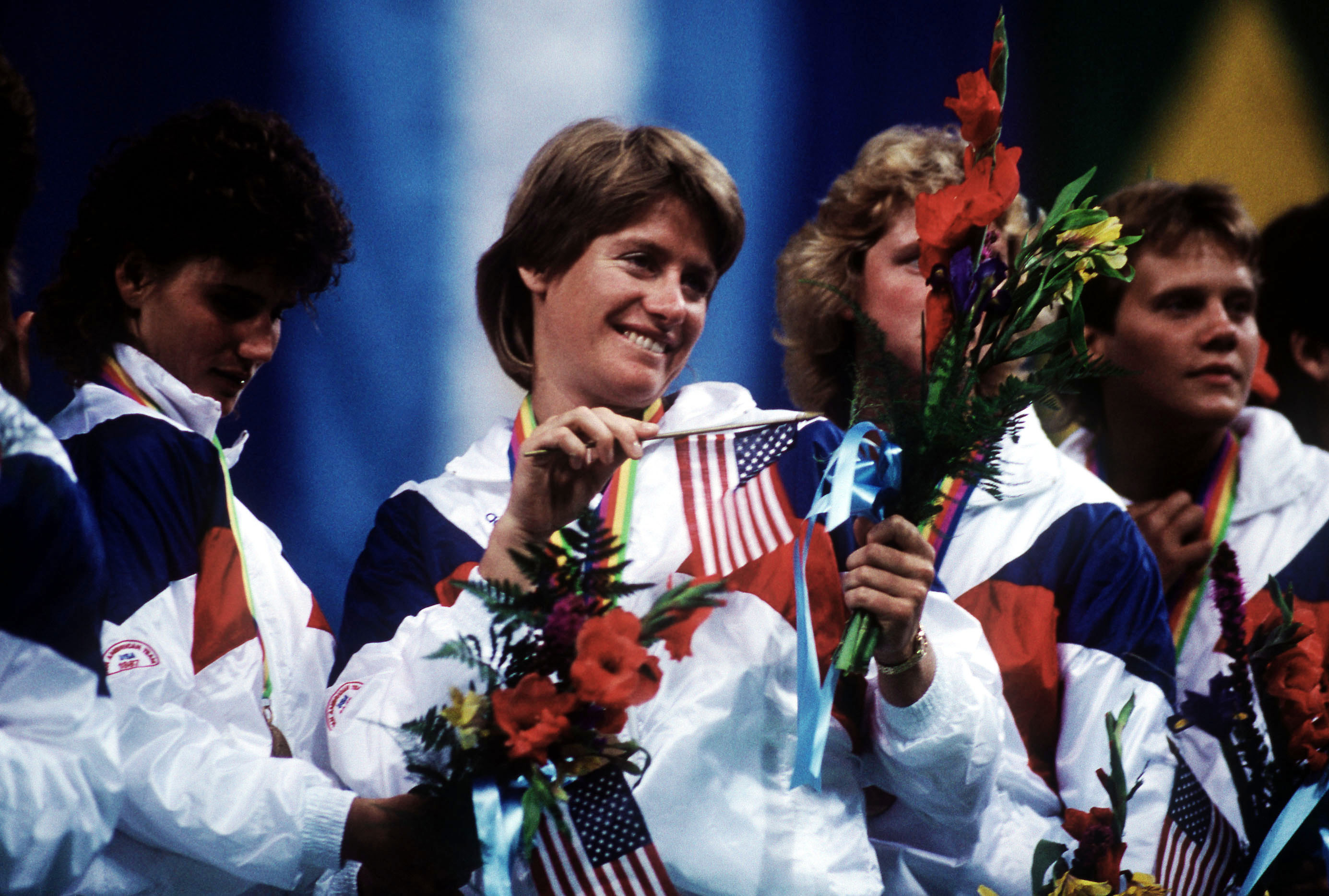 Kathy Callaghan holds a bouquet of flowers and an American flag as she celebrates the National Handball Team's winning of a gold medal at the Pan American Games. Callaghan played as goalie for the championship women's team.